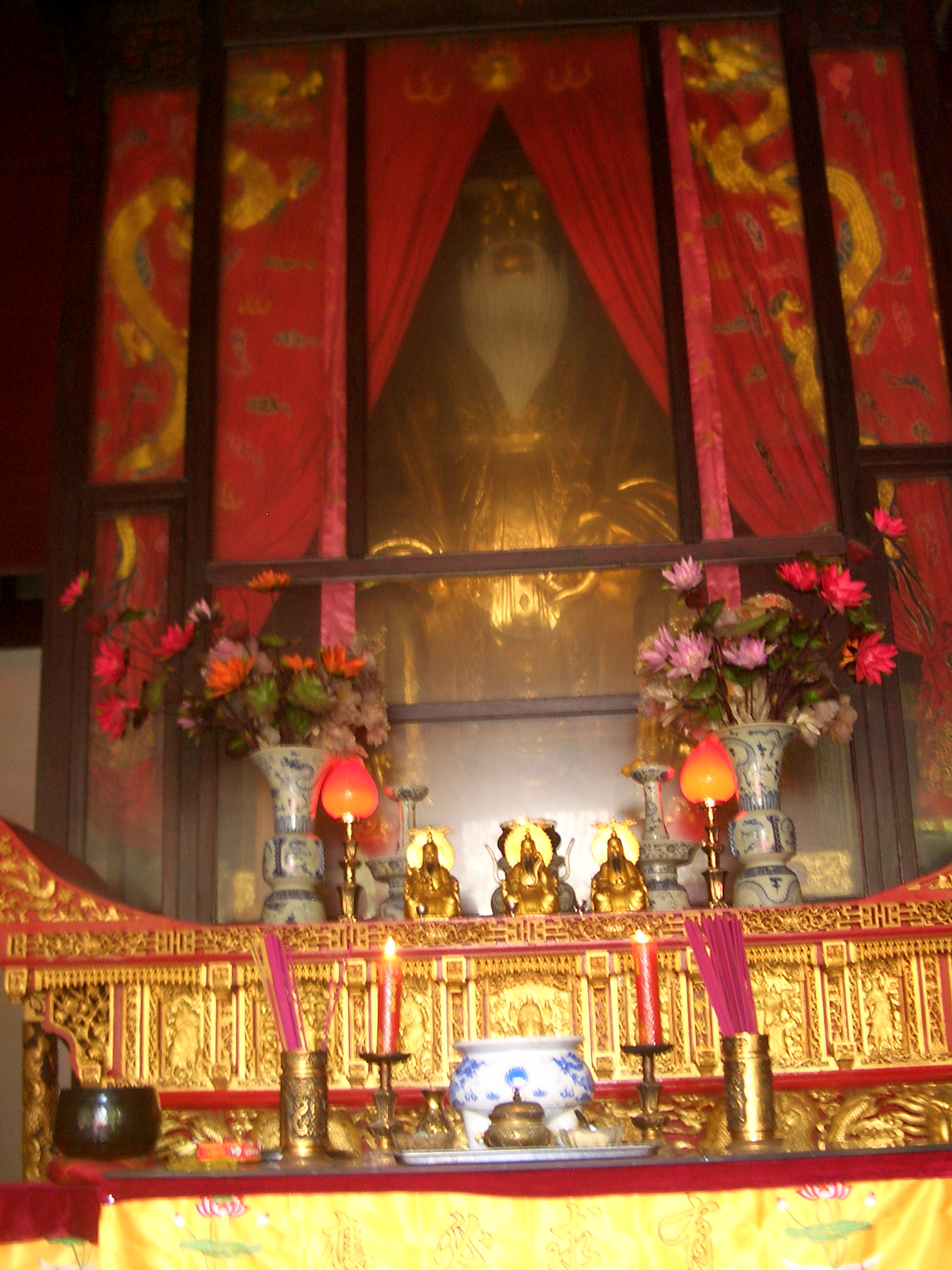 The statue of Dao De Tian Zhun, a.k.a.Tai Shang Lao Jun (one of the "Three Pure Ones"), the most important personage in Tai Qing Dian (Hall of Supreme Purity), in Changchun Temple, Wuhan. He is said by the local guides to be the same person as Lao Zi.